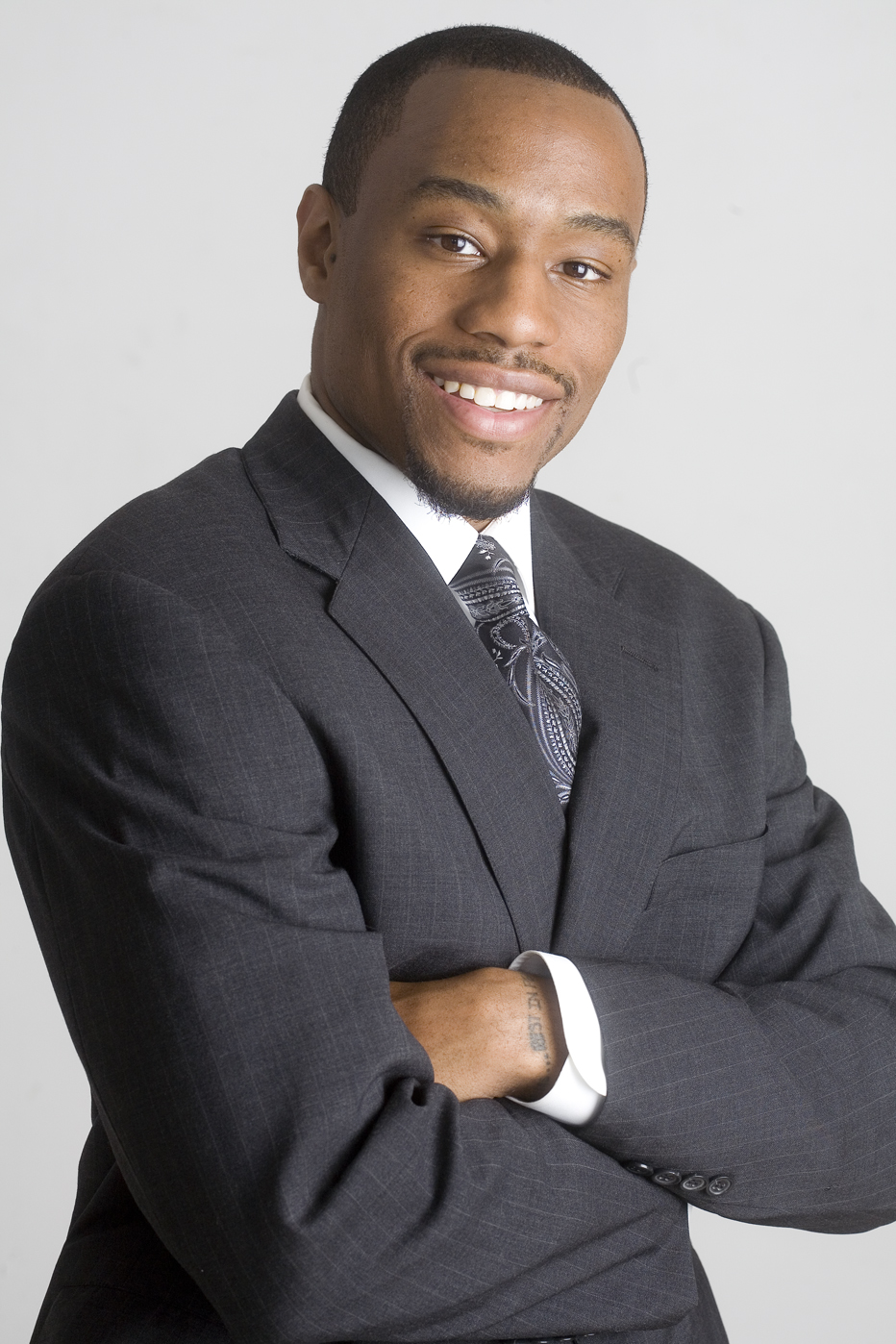 This photo was taken by myself, Wayne Riley. Mr. Hill approved of it as well. I give full permission for it to be used on this and other sites.